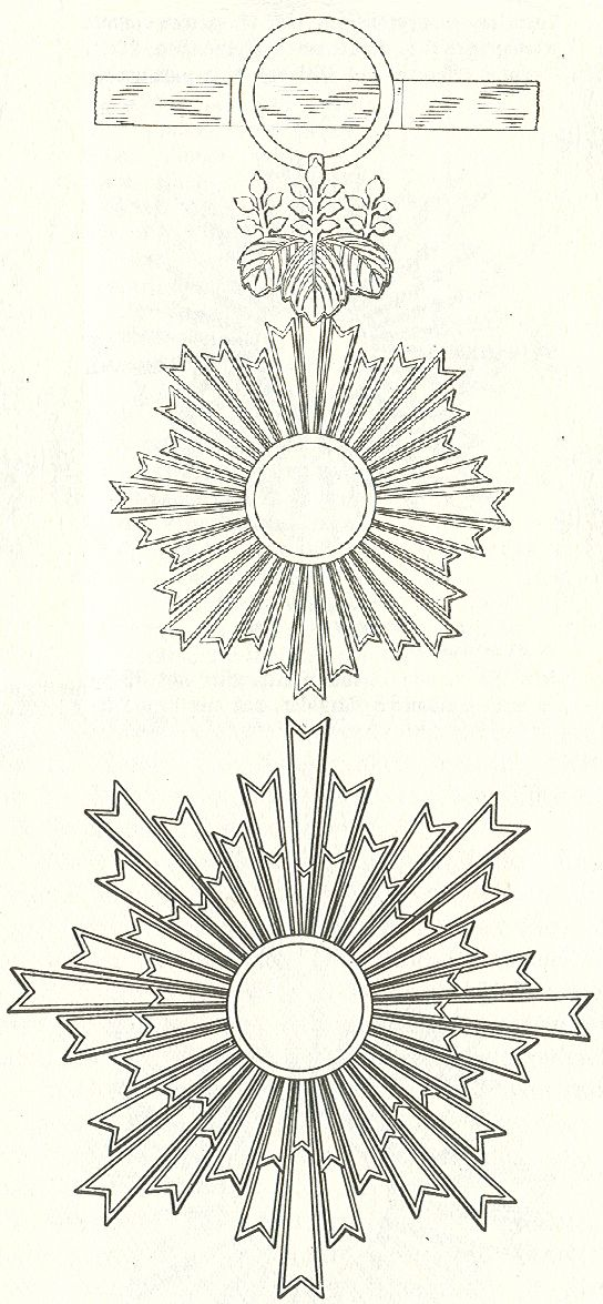 Order of the Rising Sun Japan, second Class. Scanned image taken from pp. 187-188 in "Handbook of Merit and Knighthood of all civilized countries of the 14th Century". Bibliographic note as Gritzner, Maximilian (1893) (in german) Handbuch der Ritter- und Verdienstorden aller Kulturstaaten der welt Innerhalb des XIX. Jahrhunderts. Auf grund Amtlicher und anderer Zuverlässinger quellen Zusammengestellt durch Maximilian Gritzner ... Mit 760 in den Text gedruckten Abbildungen., Leipzig: J.J. Weber. Gritzner, Maximilian (1843-1902). Robert Prummel 10 jul 2008 16:40 (CEST)